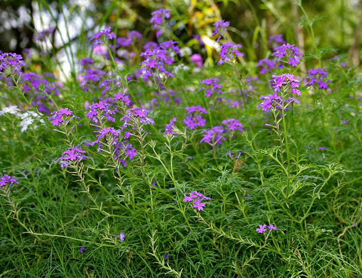 Moss Verbena or South American Mock Vervain Glandularia pulchella in Hyderabad, India.